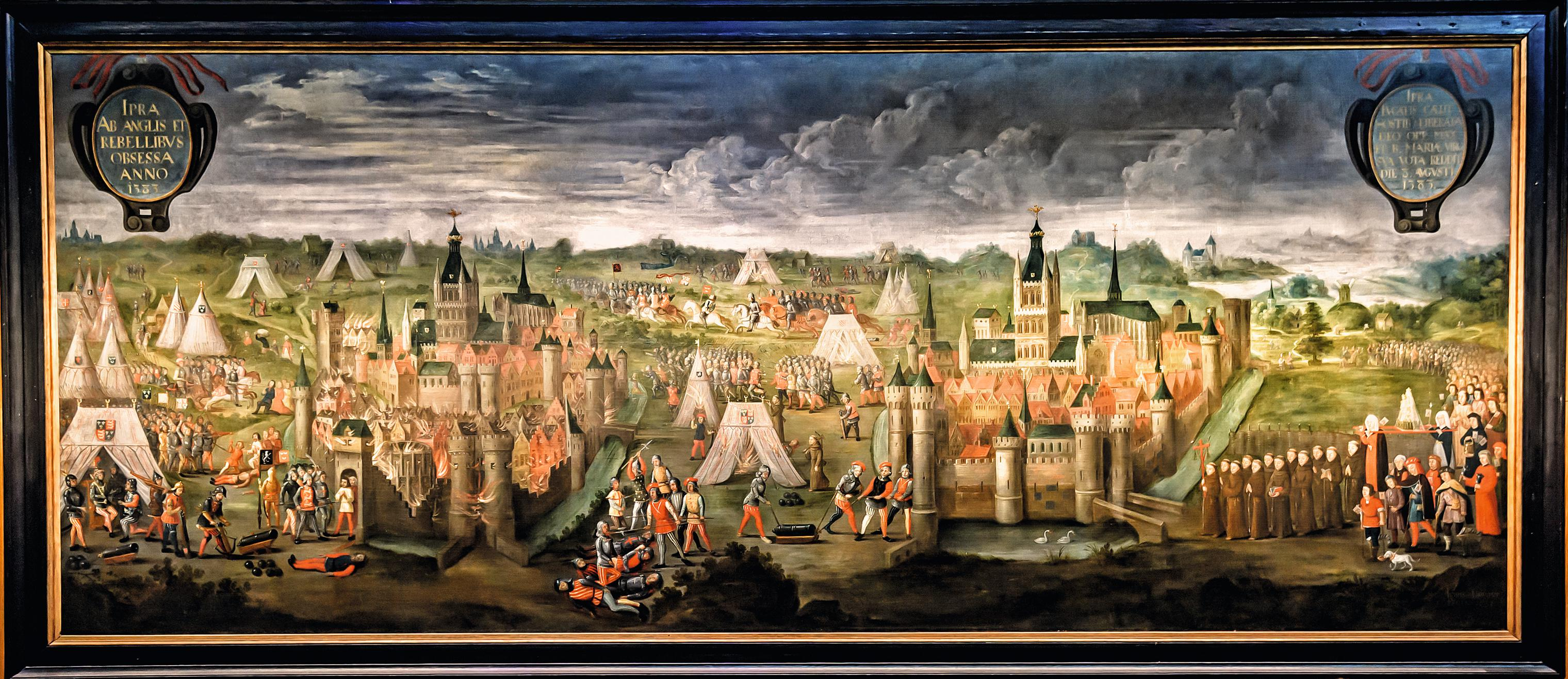 The Siege of Ypres in 1383. Painting by Joris Liebaert from 1657 in the Saint Martin's Cathedral of Ypres